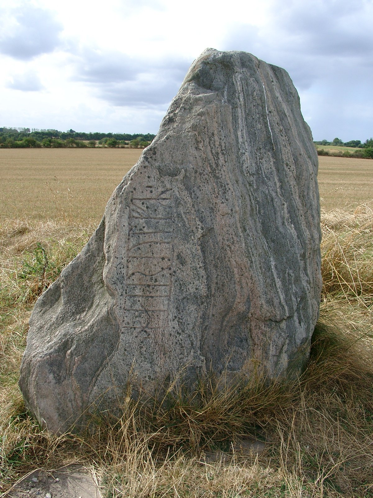 The Hærulf Runestone from the southern part of Jutland, Denmark.